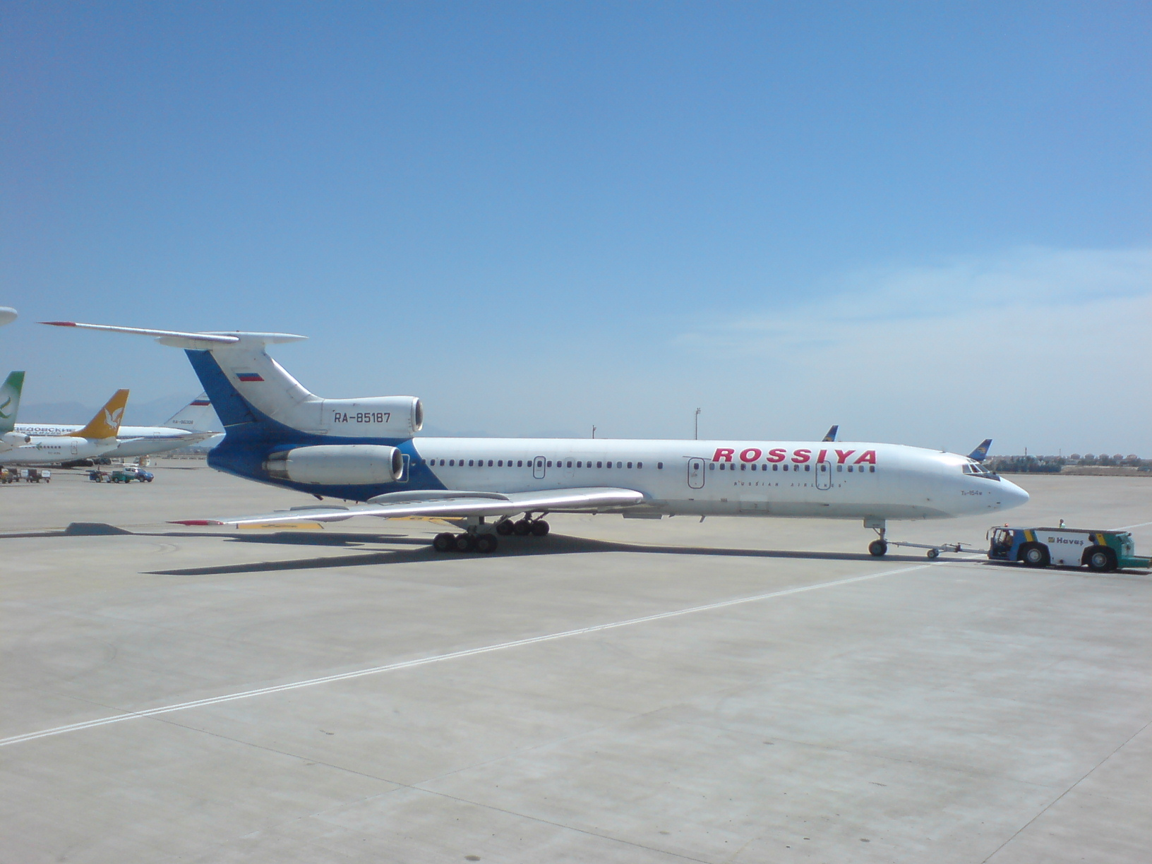 Tupolev Tu-154M Rossiya at Antalya Airport